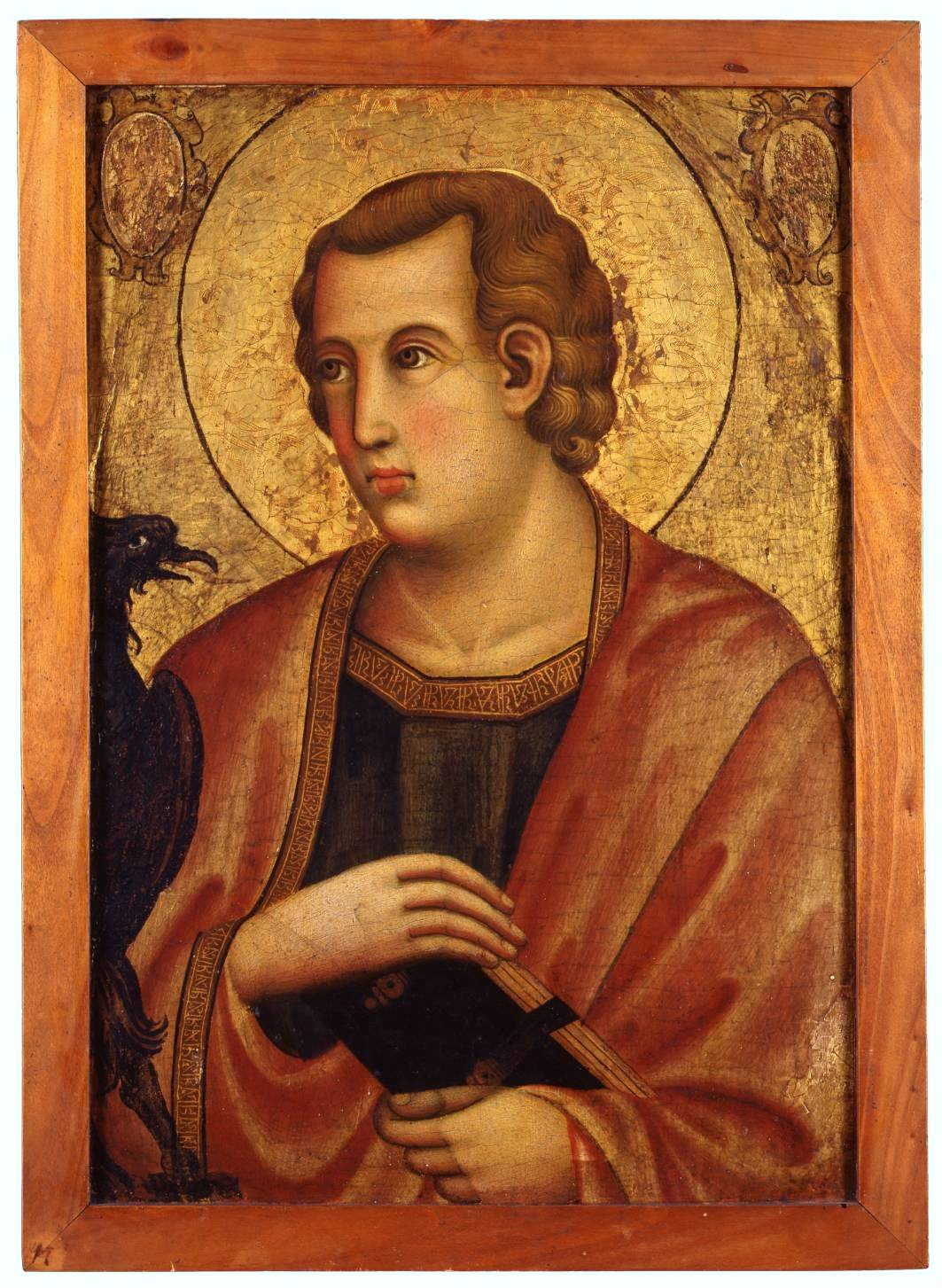 Memmo di Filippuccio or Master San Torpe. San Giovanni Evangelista 1310-20s Lindenau Museum, Altenburg